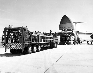 The base of a 55-ton Cardwell drill rig is loaded onto an Air Force C5-B cargo transport aircraft at Indian Springs Air Force Base on May 2, 1988 for shipment to the Soviet Union's nuclear weapons site at Semipalatinsk.